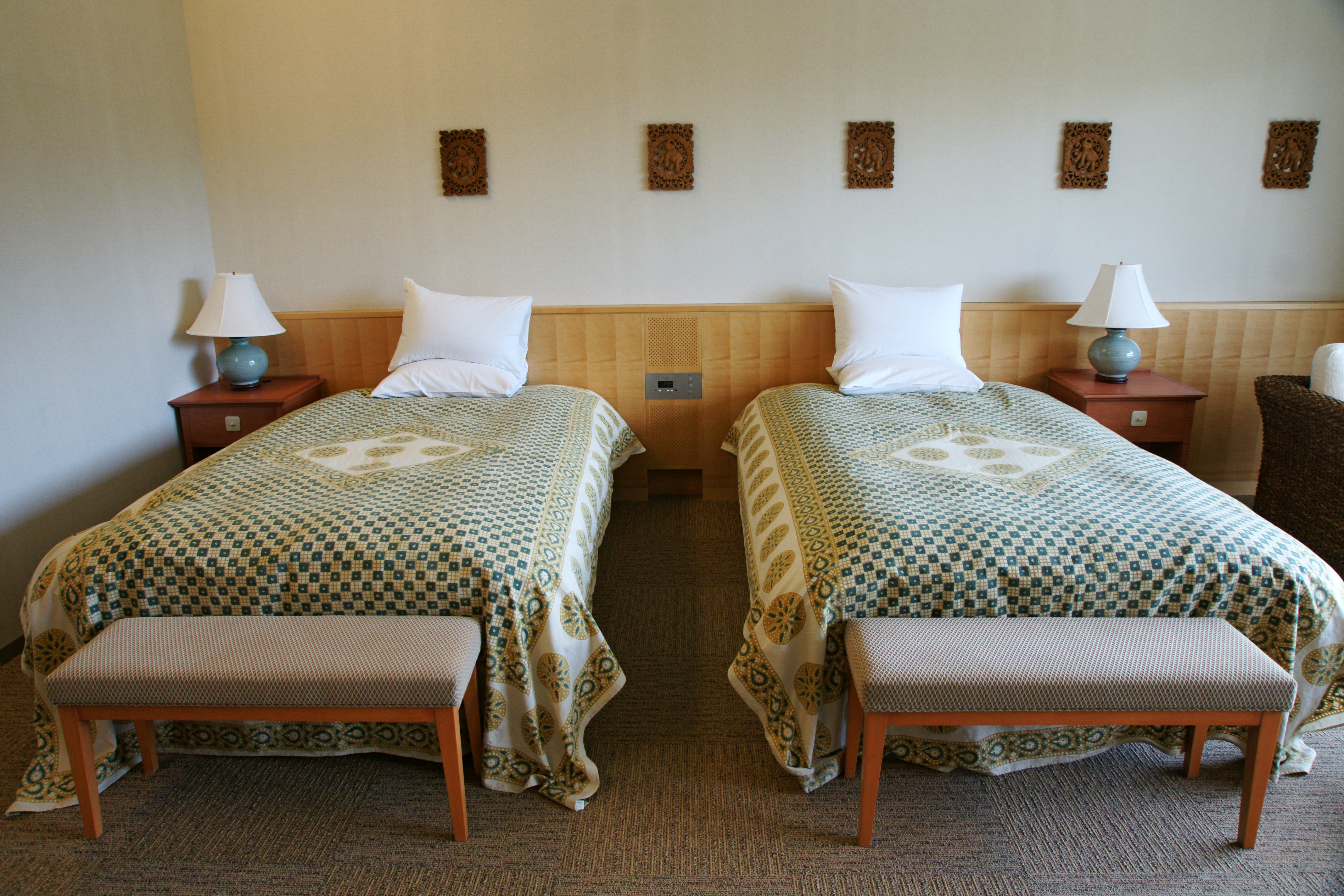 Relaxia Mineyama Kogen Hotel in Mineyama highlands, Kamikawa, Hyogo prefecture, Japan.